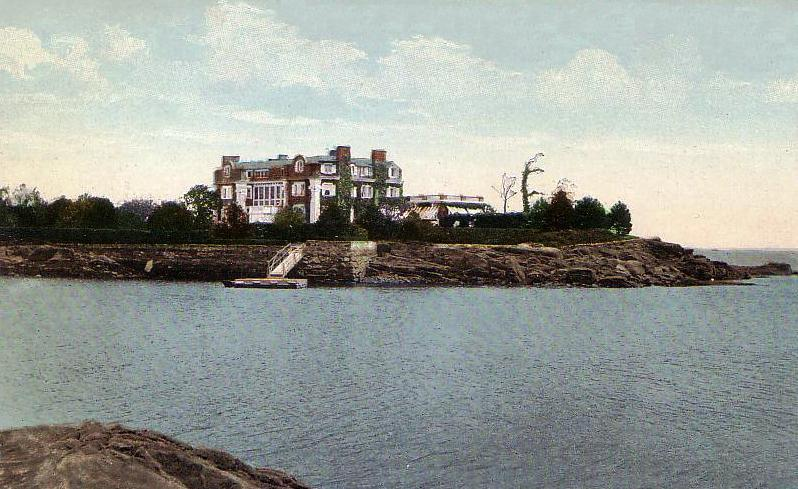 Image is a scan of a postcard image of the Iselin Residence which is located in New Rochelle, New York on the 'Premium Point' penninsula. The postcard is postdated 1898